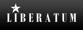 Liberatum Logo